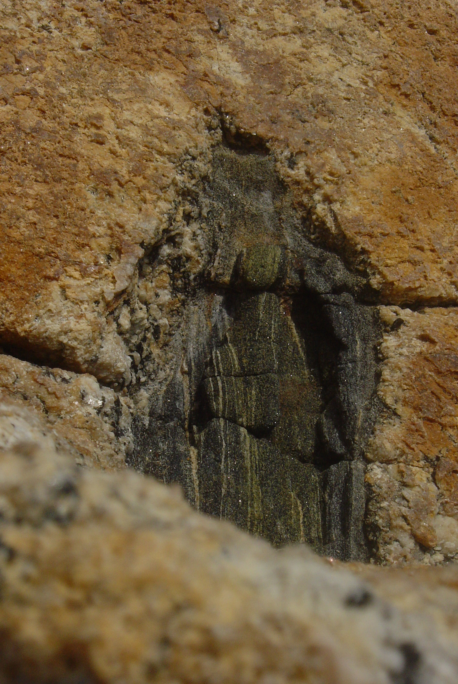 A xenolith in Larchmont, New York